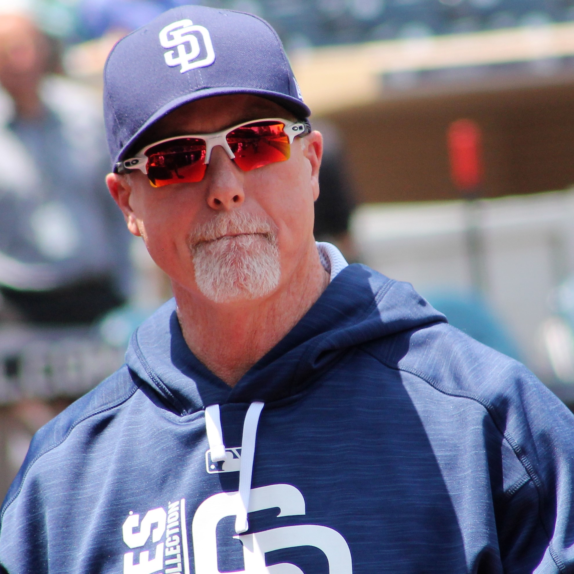 Professional baseball coach Mark McGwire during a May 2017 game in San Diego.